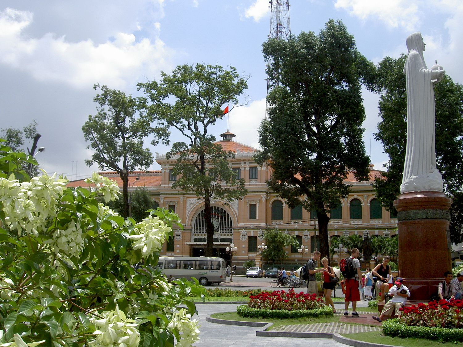 Ho CHi Minh City Central Post Office.